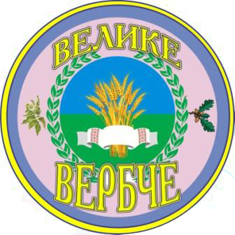 Coat of arms of Velyke Verbche